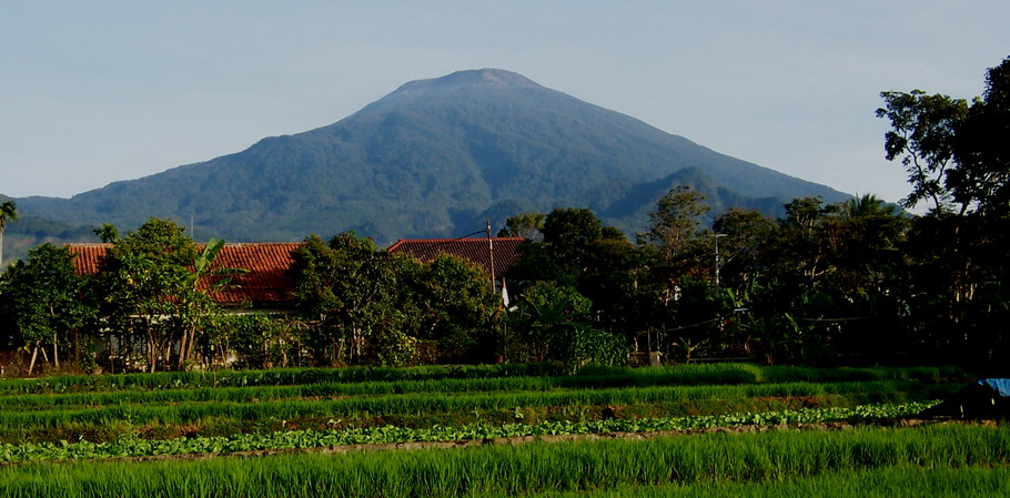 Mount Ciremai, West Java, Indonesia, as seen from Cigugur village